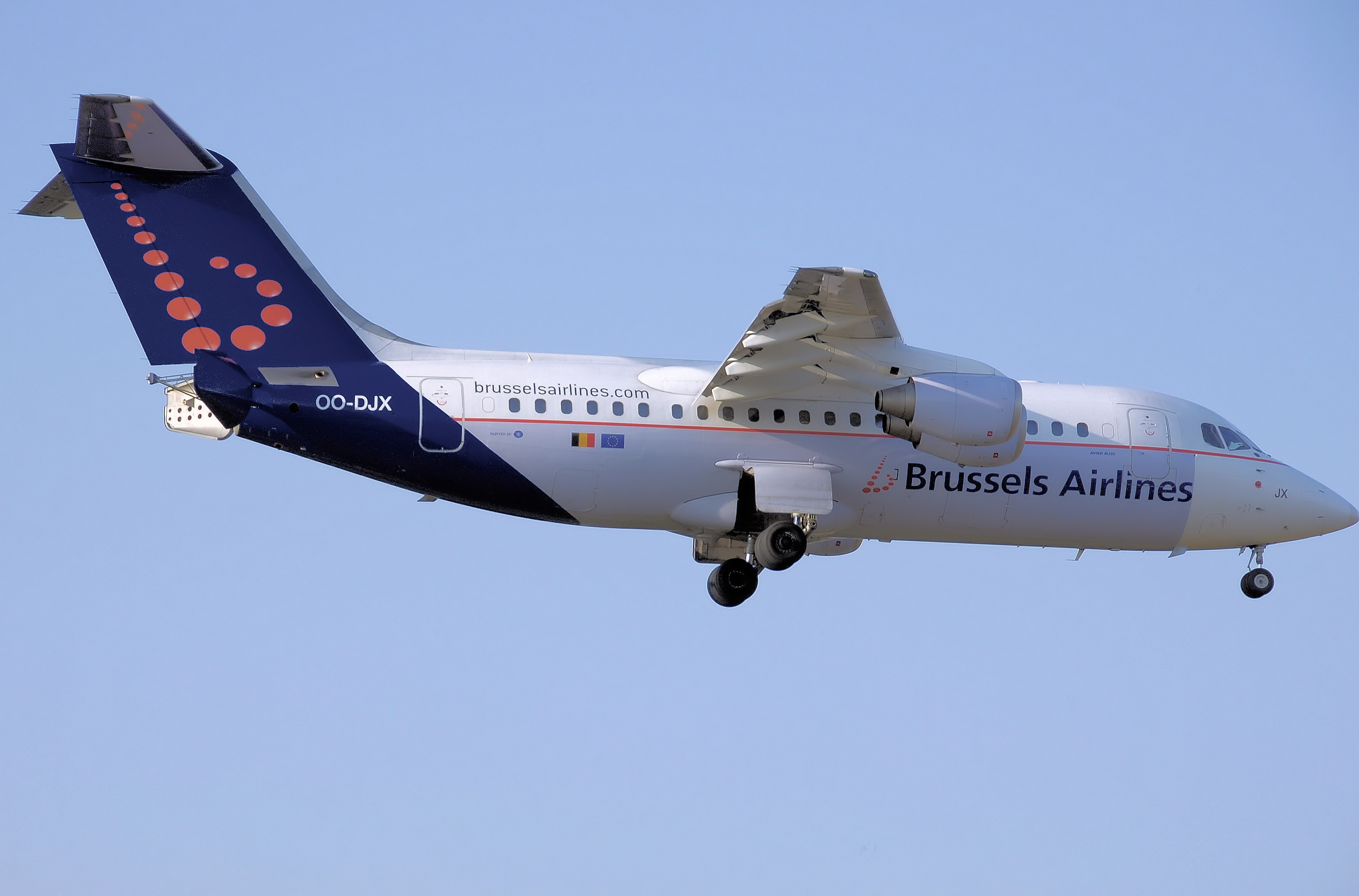 Brussels Airlines Avro RJ85 (OO-DJX) lands at Birmingham International Airport, England. Notice the extended air brakes at the rear of the aircraft.